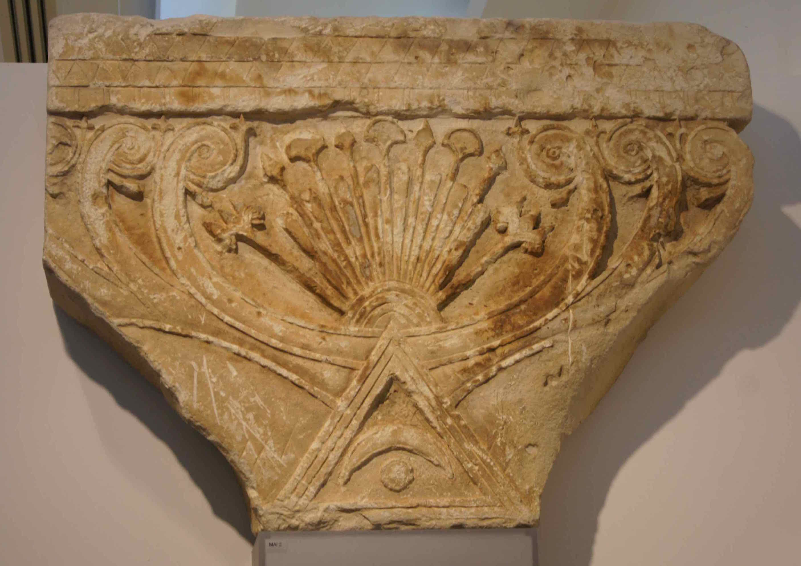 Column capital, Idalion museum